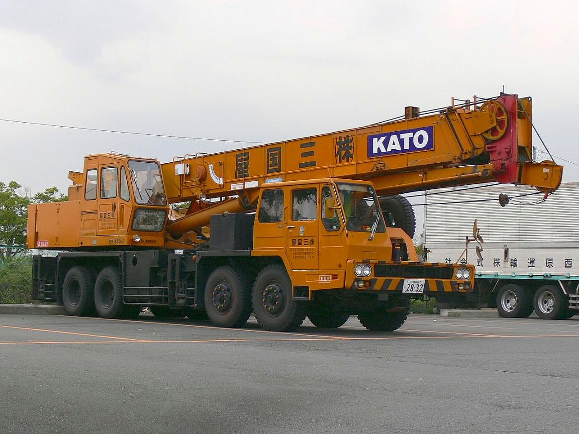 The Truck-mounted crane (Japan). Truck-mounted crane that Mikuniya construction company owns. It takes a picture outside the site in the parking lot in Tokyo-Harumi. 三国屋建設が所有する、トラッククレーン。 東京都晴海 (中央区)の駐車場にて敷地外より撮影。 See also Ja:移動式クレーン for more information(written in Japanese).